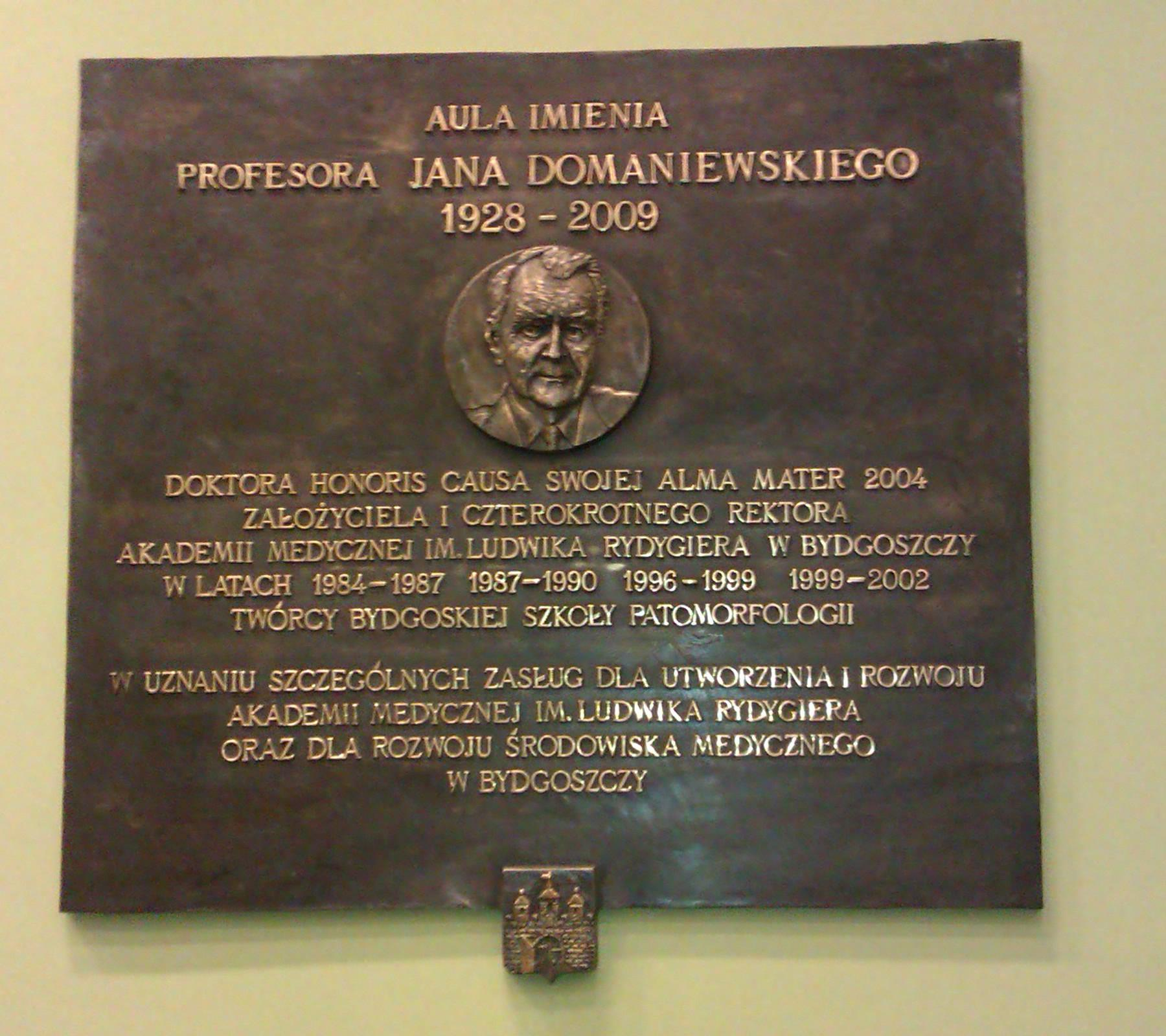 A plate in memory of Jan Domaniewski in the Collegium Medicum of the University of Bygdoszcz